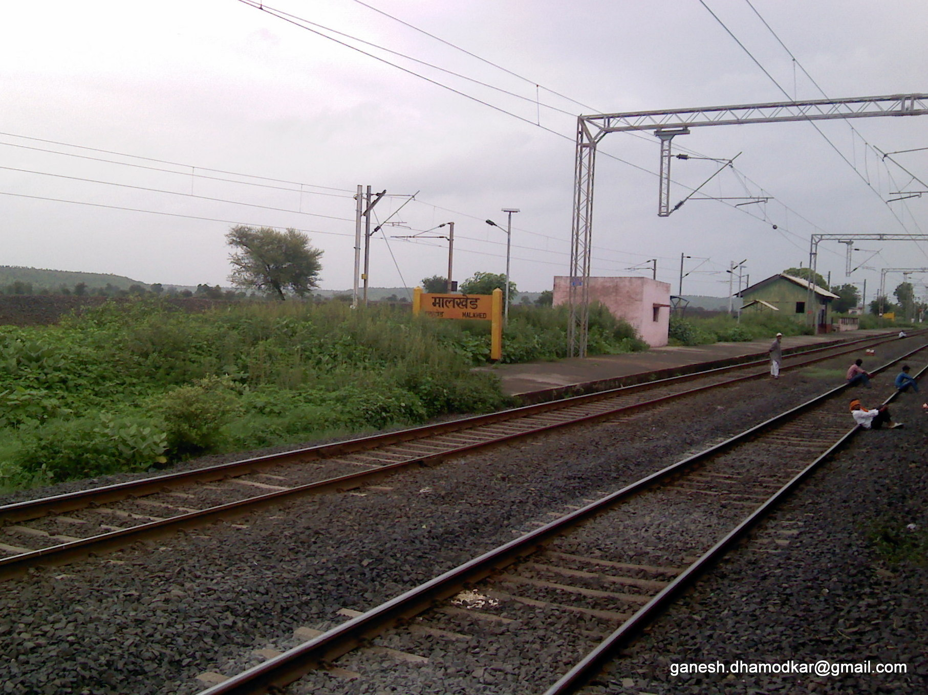 Malkhed Railway Station